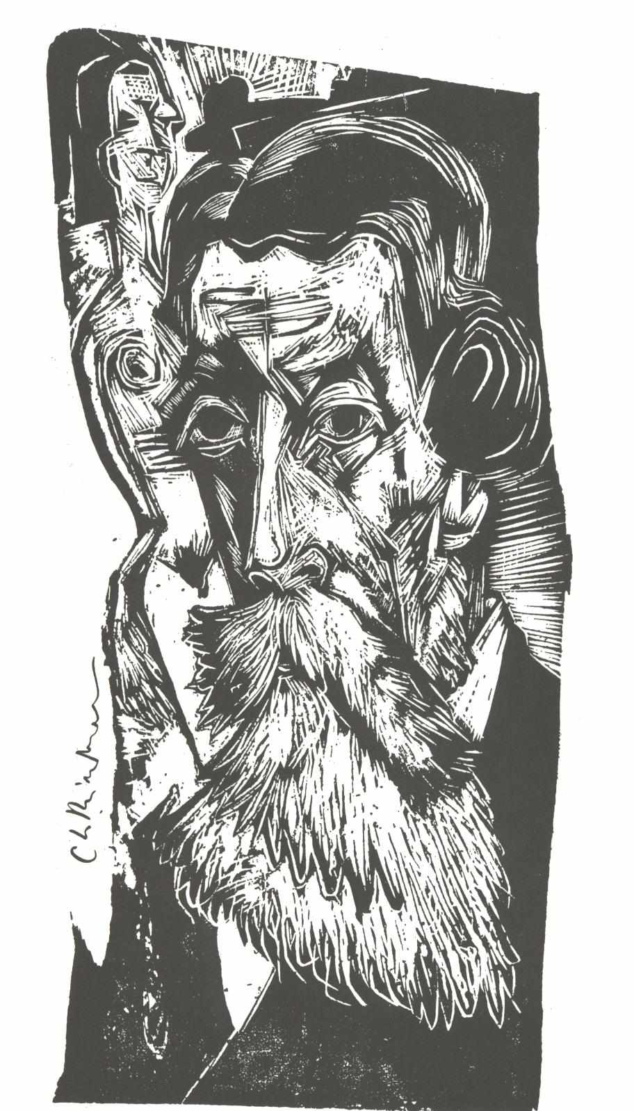 Portrait of Ludwig Schames